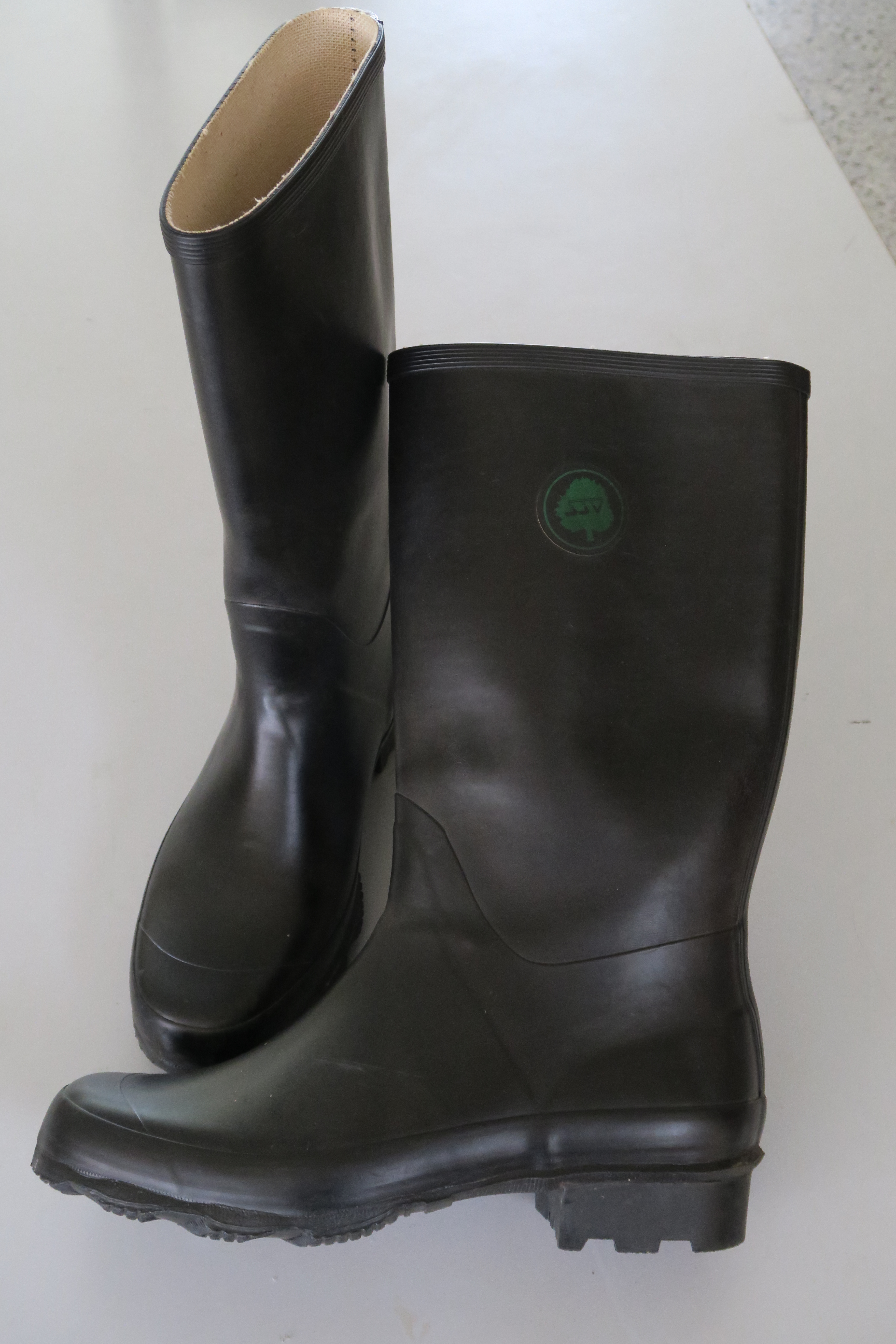 Austria rubber boots 1998